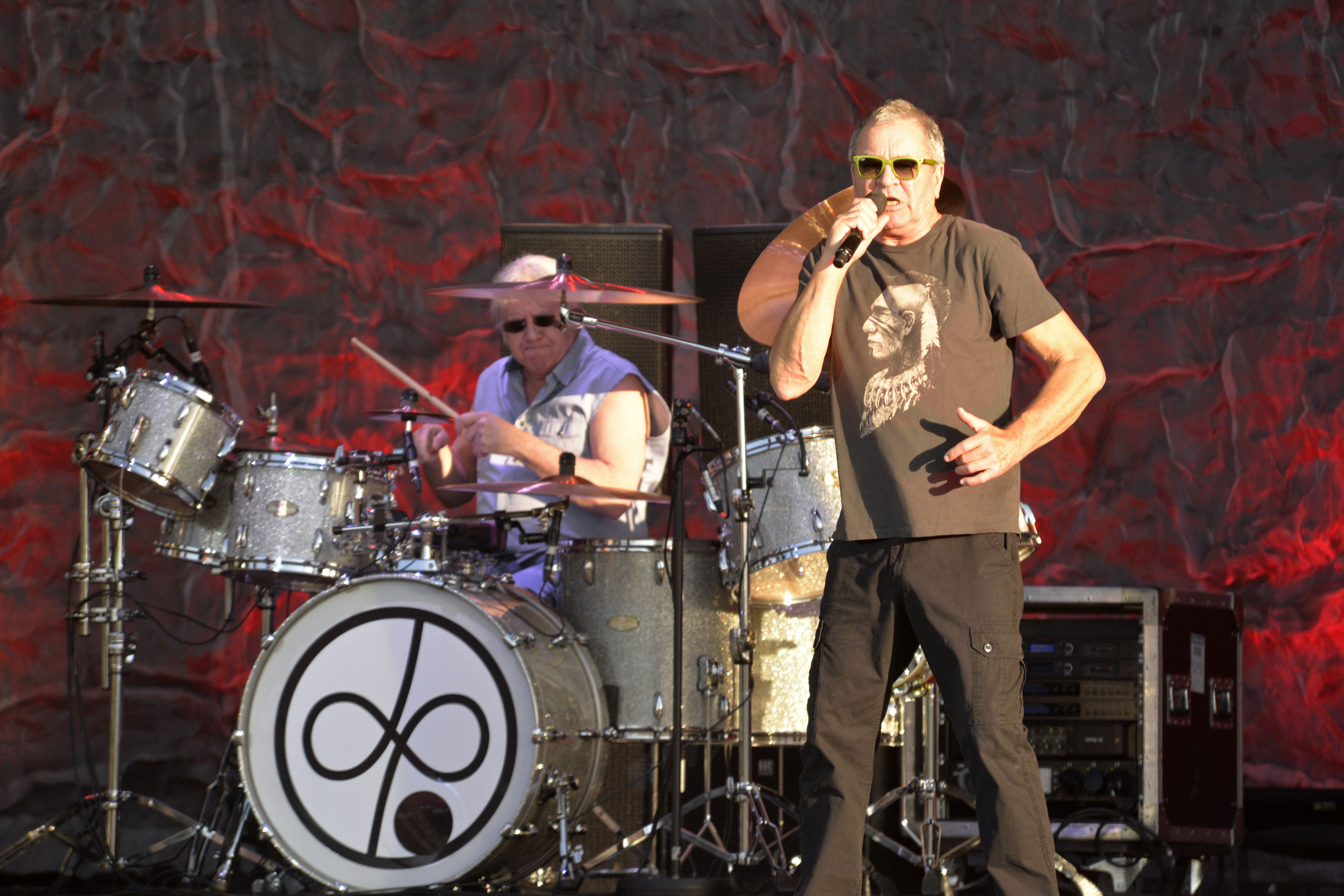 Deep Purple at 2017 Hellfest, France.